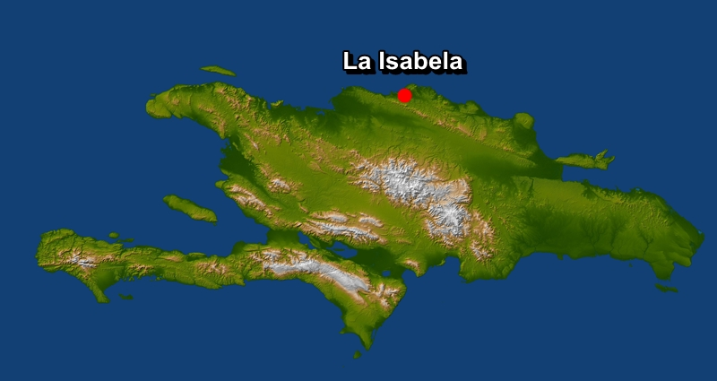 La Isabella in a NASA map